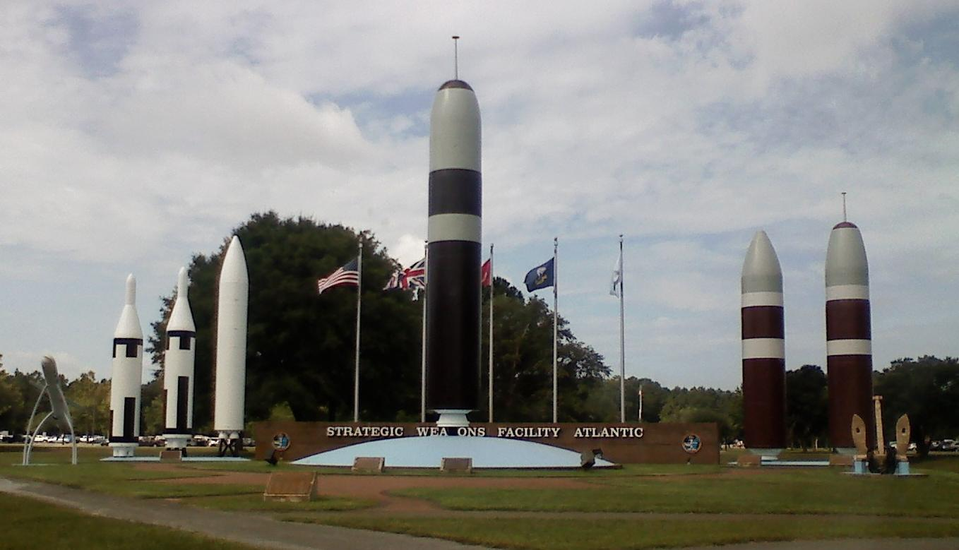 Missile display at Strategic Weapons Facility Atlantic (SWFLANT) at the Naval Submarine Base (SUBASE) Kings Bay, GA.